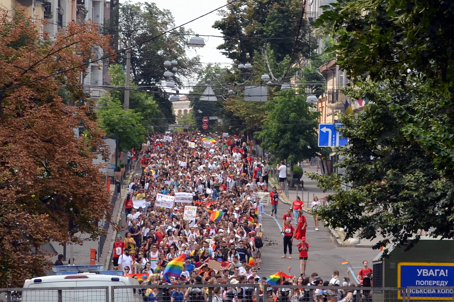 Kyiv Pride 2019Location: Ukraine Event type: Kyiv Pride 2019, June 23 Date or year: 2019-06-23